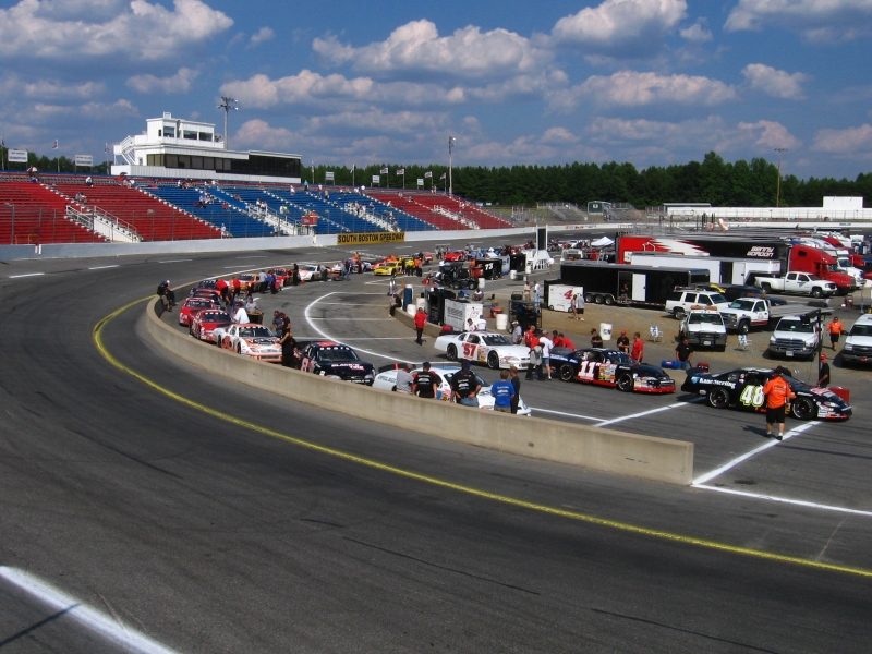 Photo by Taylor Meyn, August 9, 2008. USAR Pro Cup Series preparing for their qualifying session.